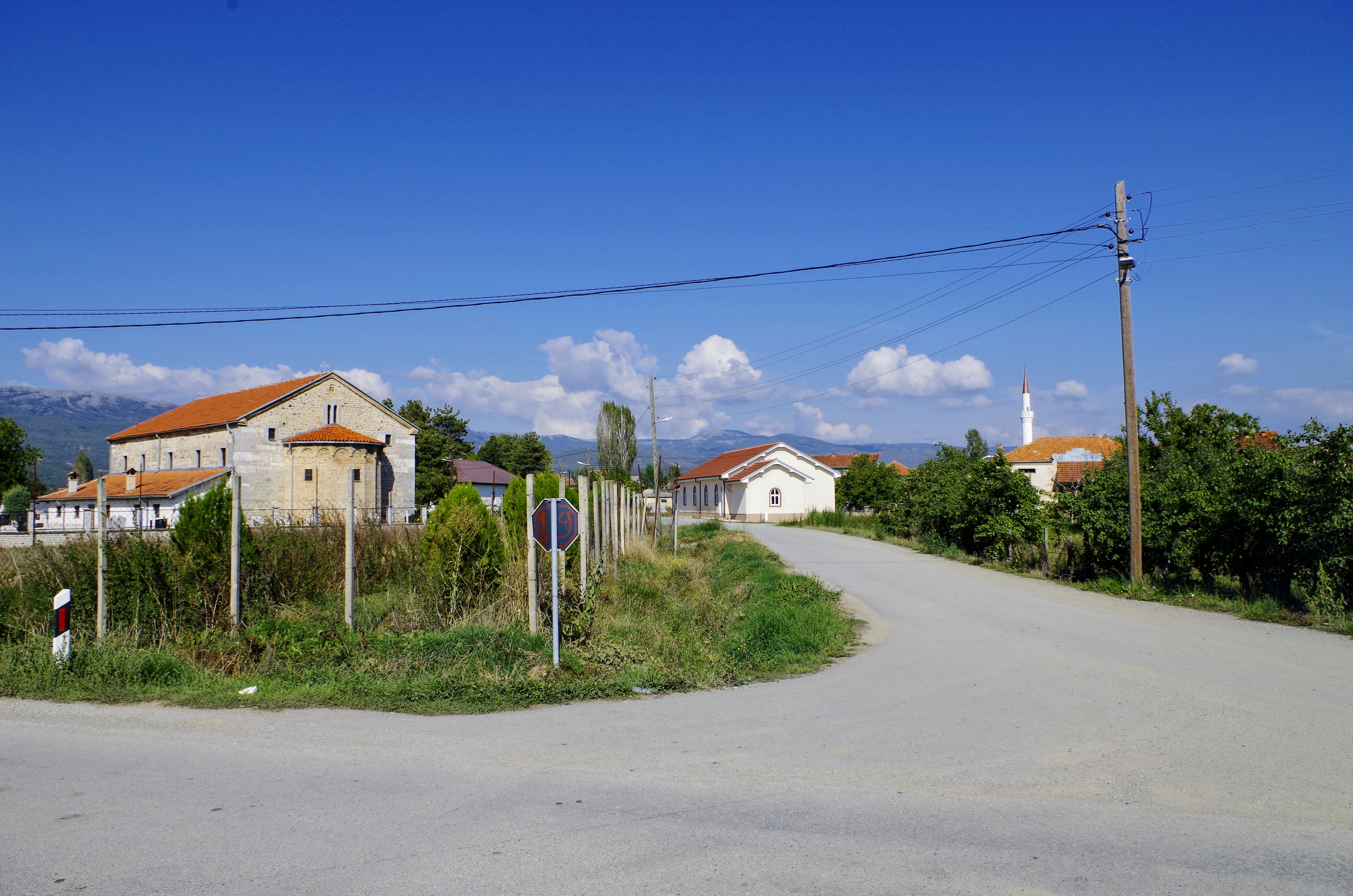 View of the village Drmeni